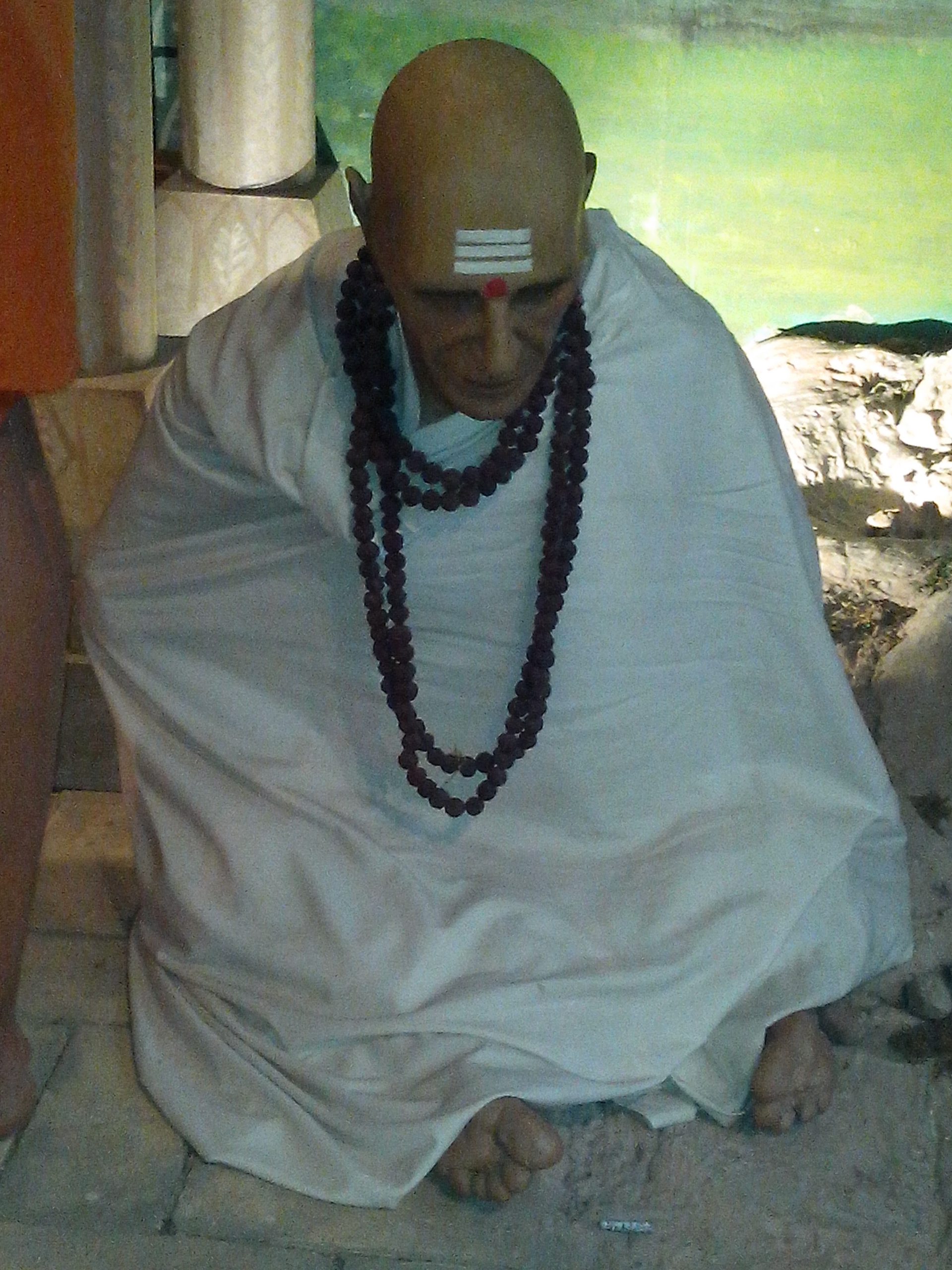 Pakistan monument museum, a hindu pandits statue This is a photo of a monument in Pakistan identified as the ICT-4